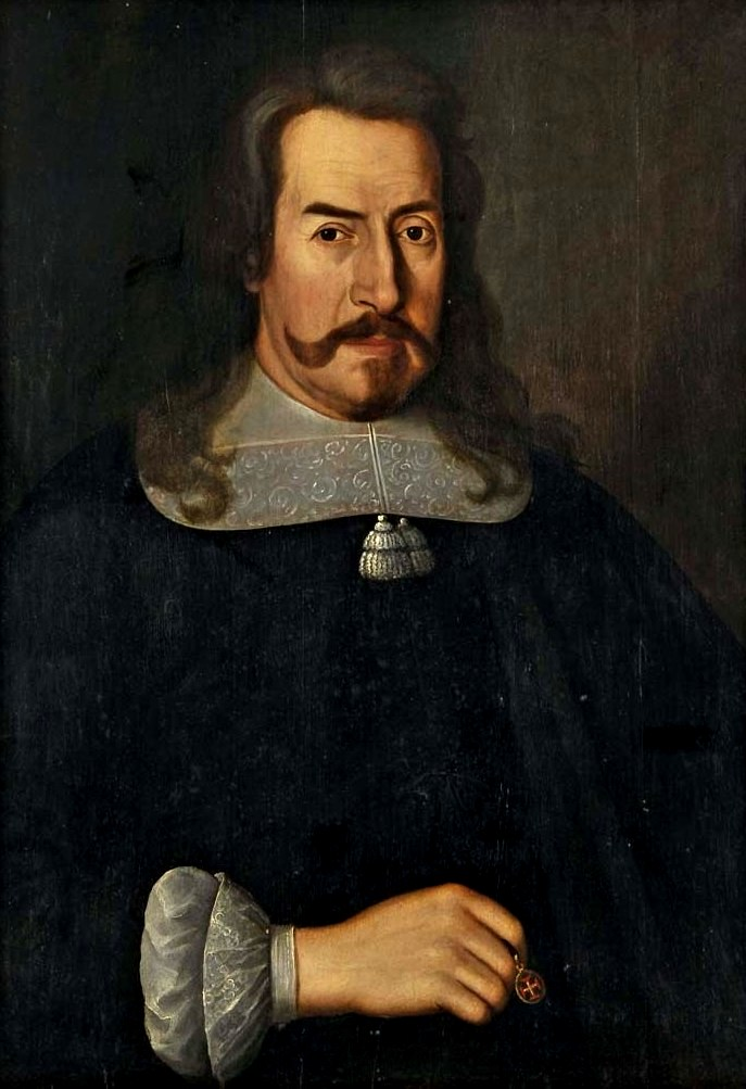 o marques